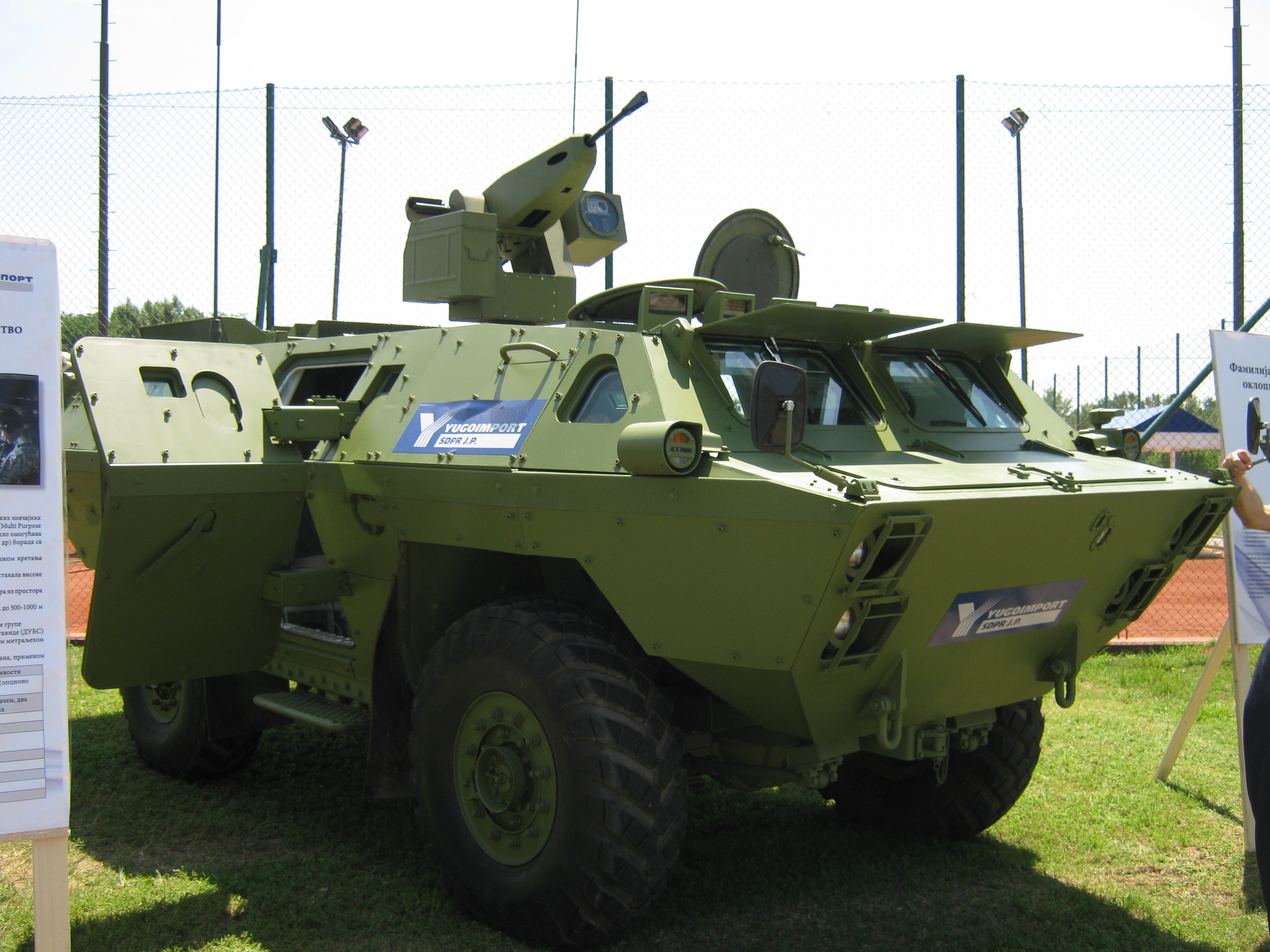 BOV M11 vehicle modification by Yugoimport.